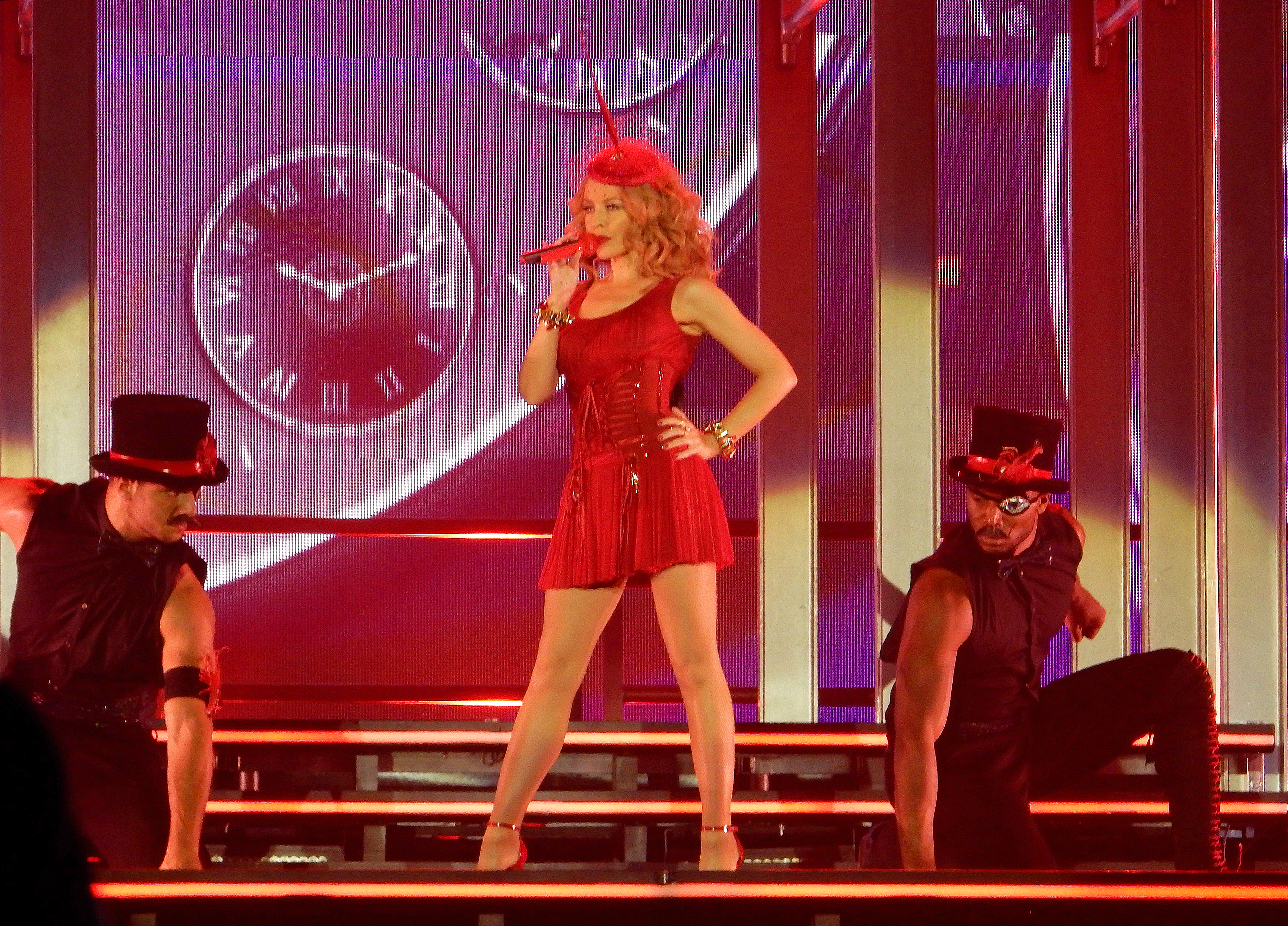 Kylie Minogue - Kiss Me Once Tour - Sheffield - 13.11.14. - 035